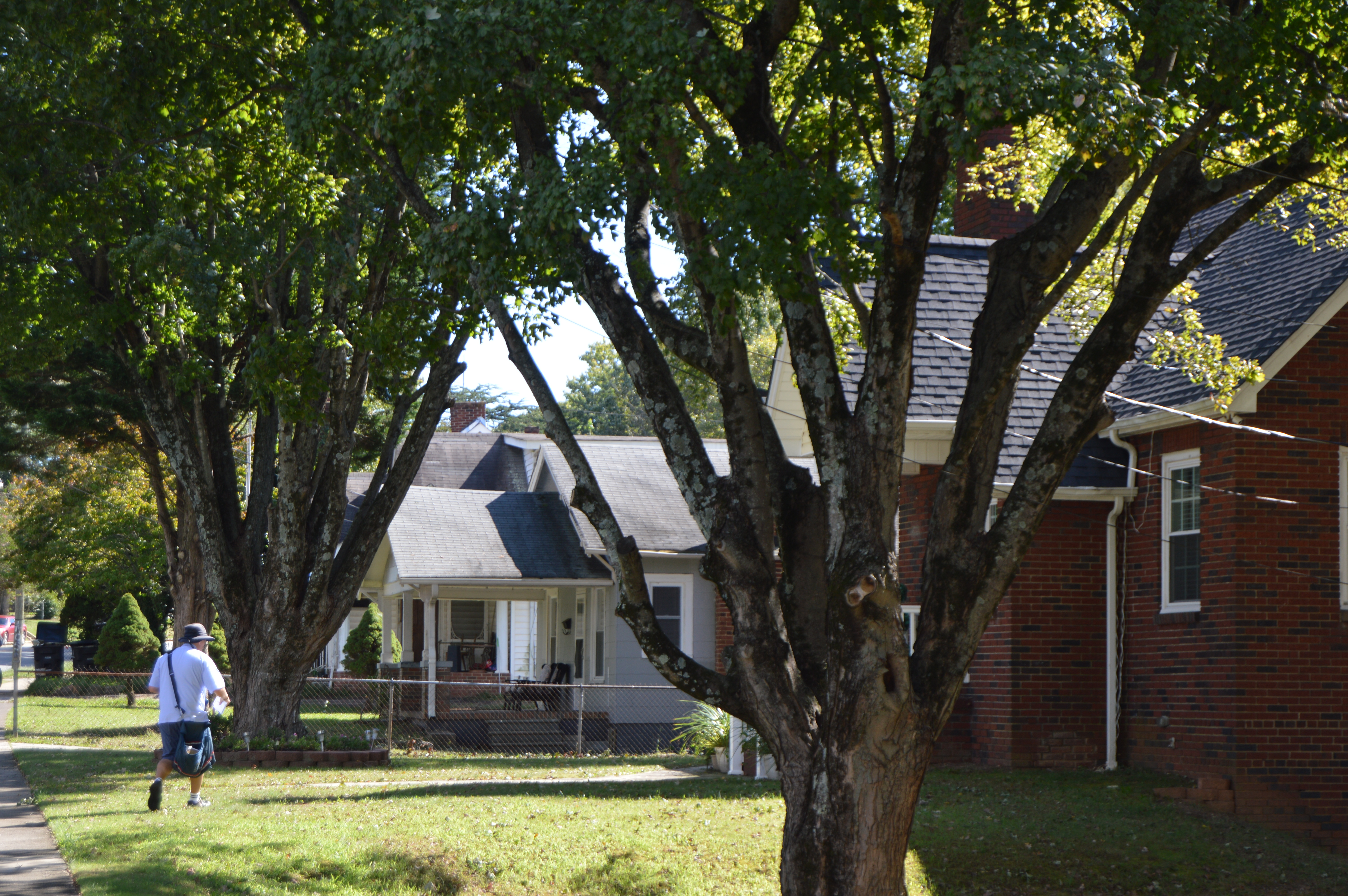 Houses on the southern side of Sprague Street just east of the Peachtree Street intersection in Winston-Salem, North Carolina, United States. This block is part of the Waughtown-Belview Historic District, a historic district that is listed on the National Register of Historic Places.